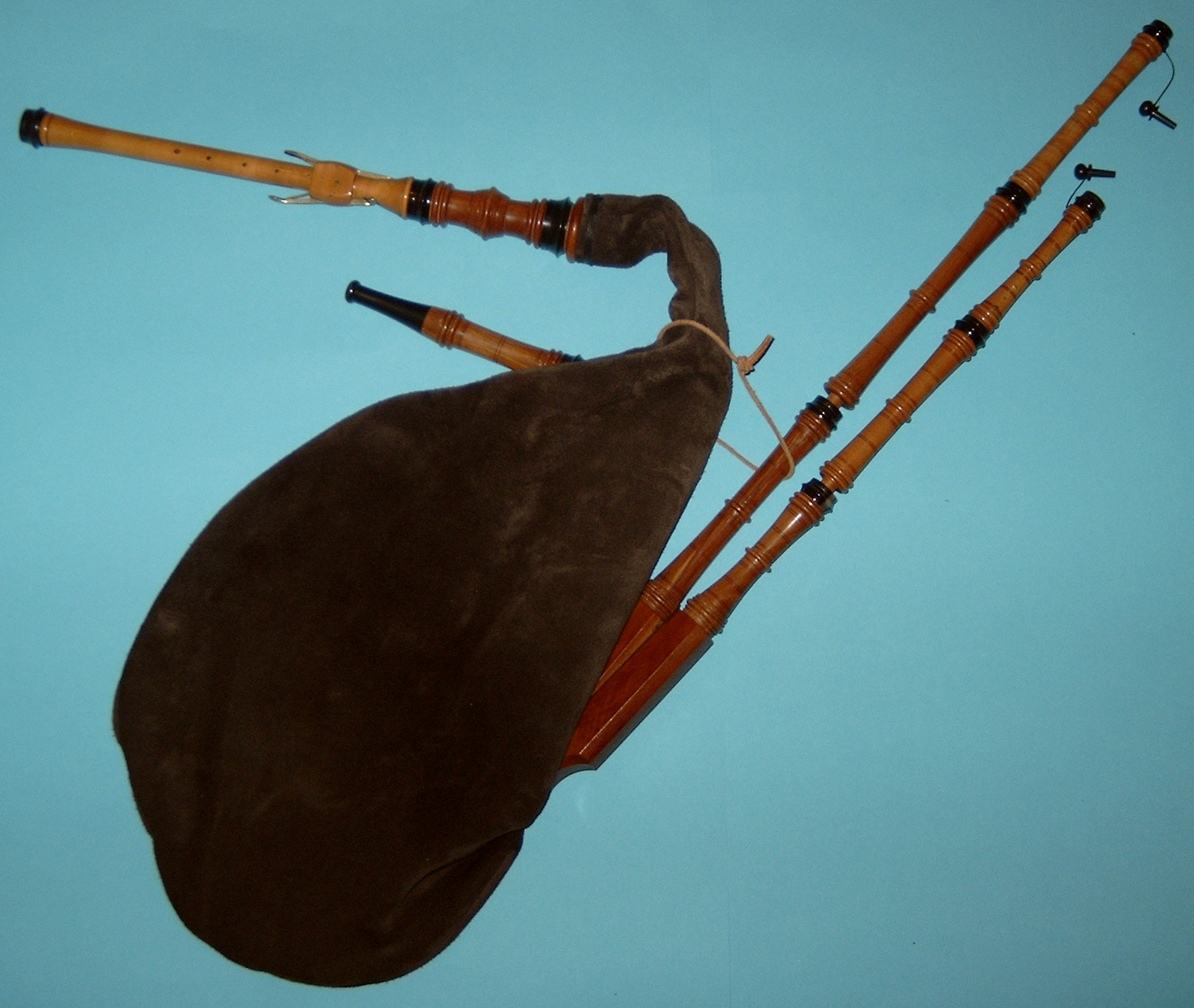 modern huemmelchen chanter (cylindrical bore, equipped with double-reed), scale range: c1d1e1–g2 large drone (cylindrical bore, equipped with double-reed) can be tuned to: B, c0, d0 small drone (cylindrical bore, equipped with double-reed) can be tuned to: e0, f0, g0, a0